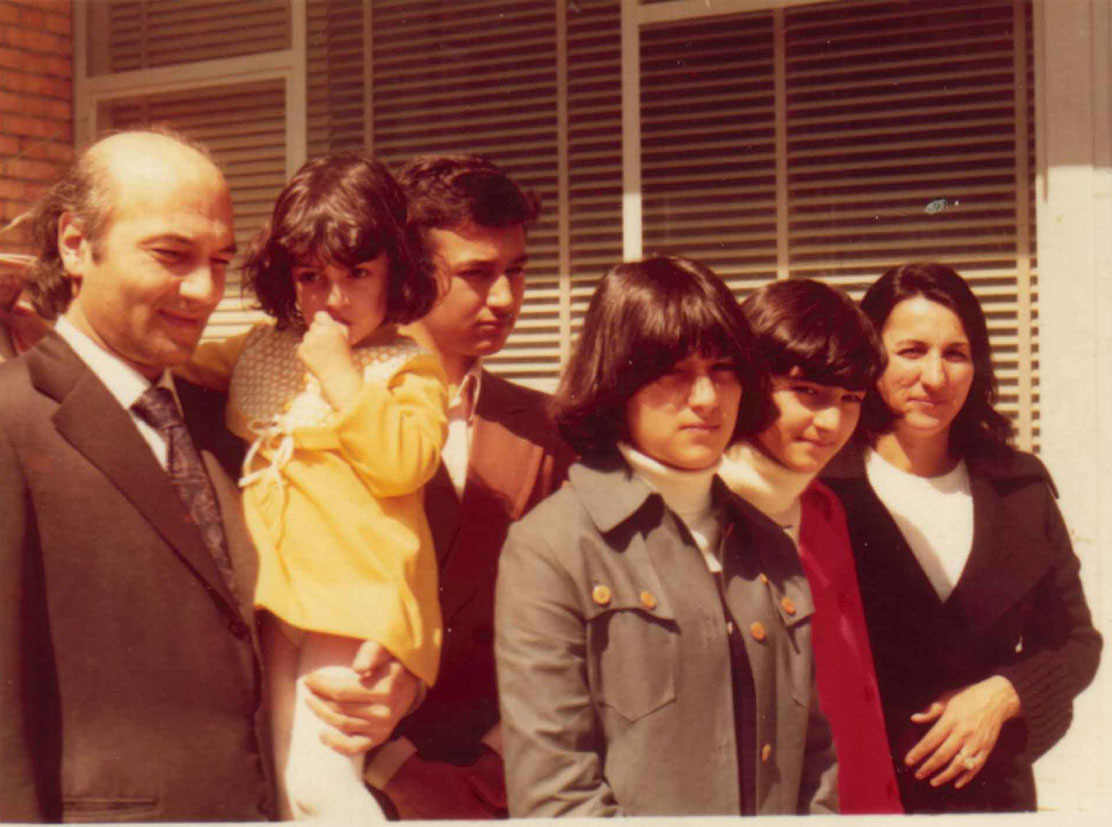 Ali Shariati, one day after releasing from prison